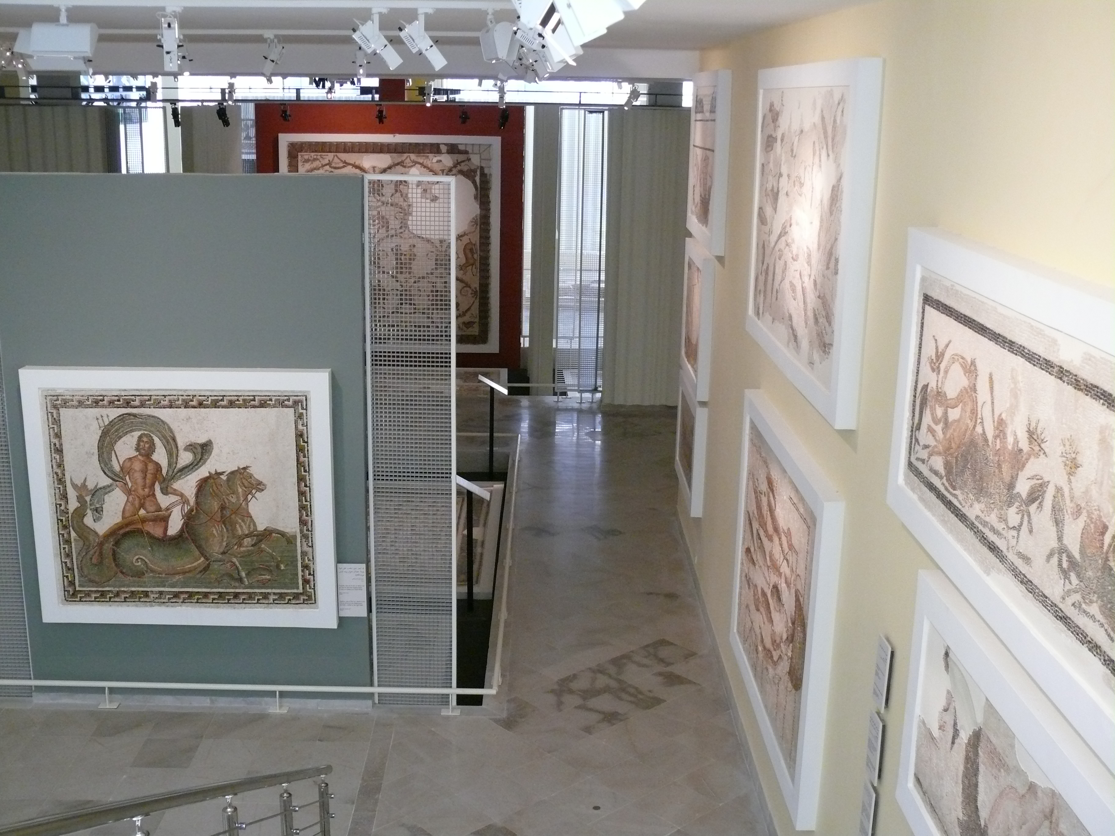 View of the rooms in the Archeological Museum of Sousse